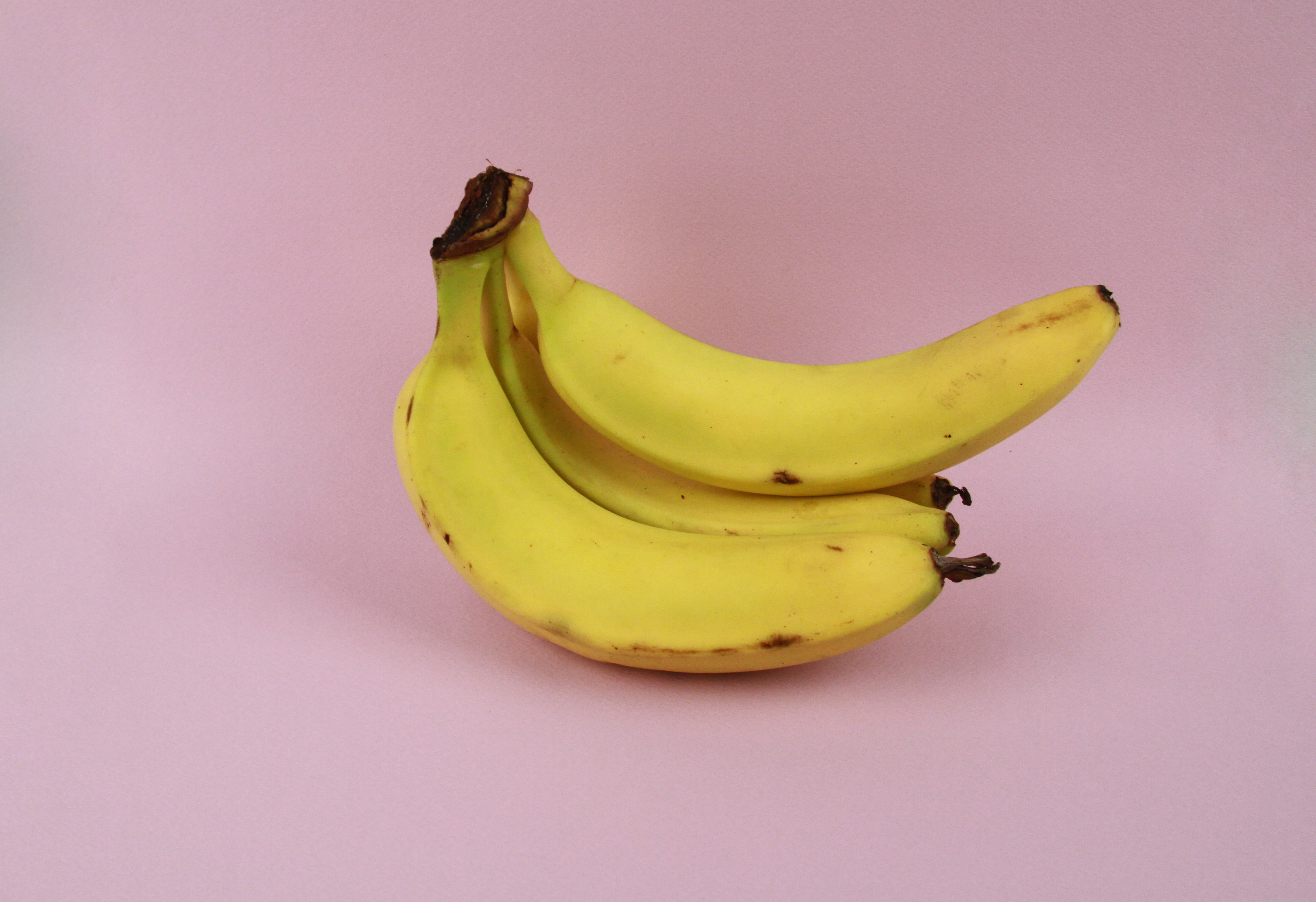 banana pink fruit